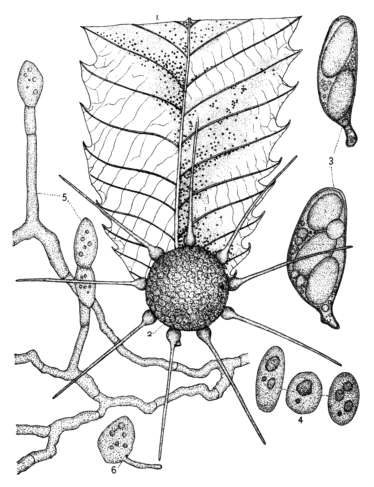 Phyllactinia suffulta (Reb.) (now Phyllactinia guttuta (Wallr.) Lév.) Fig 1. Natural size, on chestnut leaf. 2. Perithecium enlarged. 3. Two asci. 4.Three sporidia. 5.Conidia-bearing hyphae. 6.Conidium germinating.